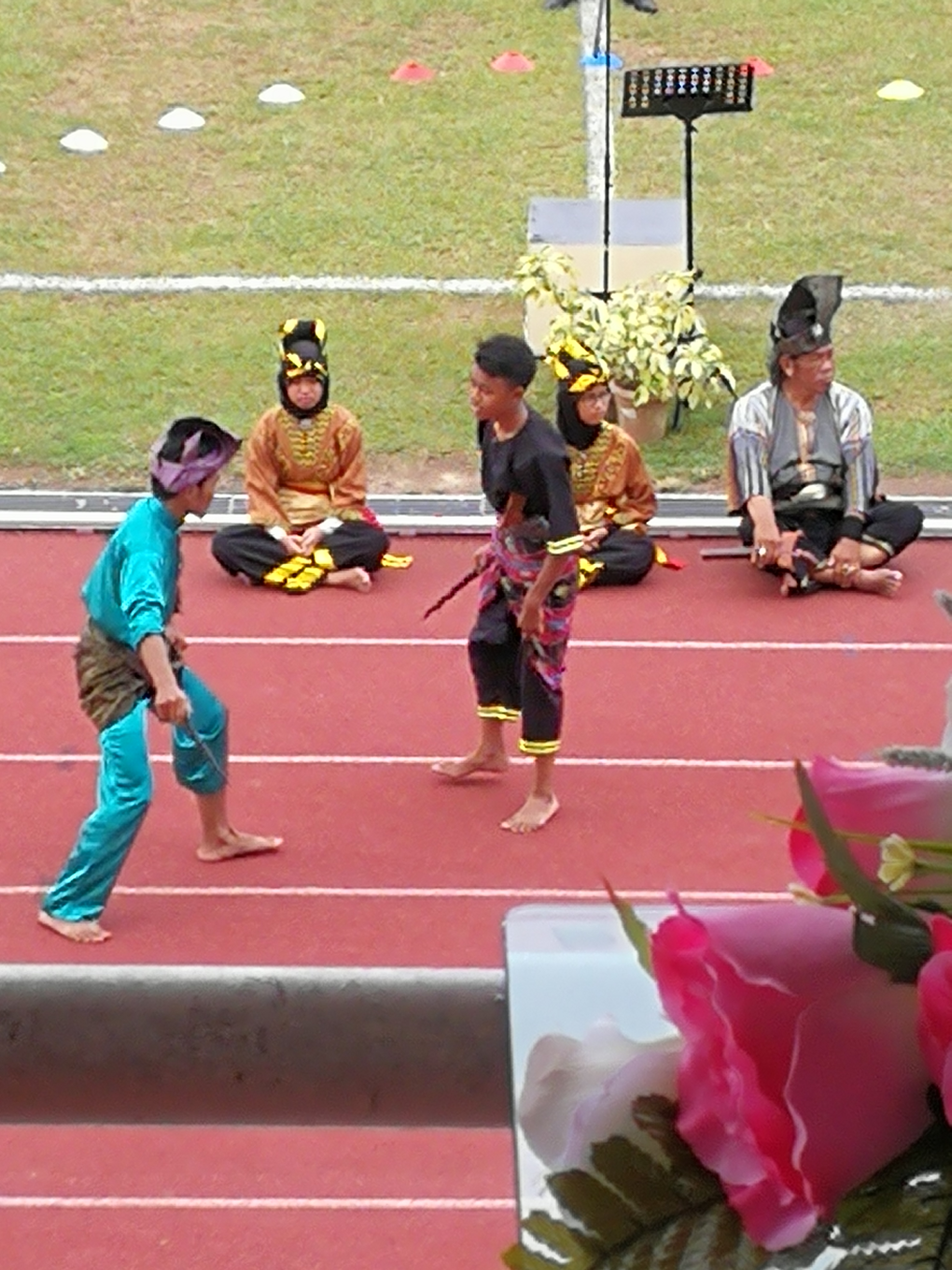 Pesuma32 Acara Pencak Silat